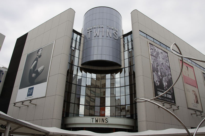 Machida Tokyu TWINS WEST, opend in Oct. 5, 2007, in Machida, Tokyo, Japan.